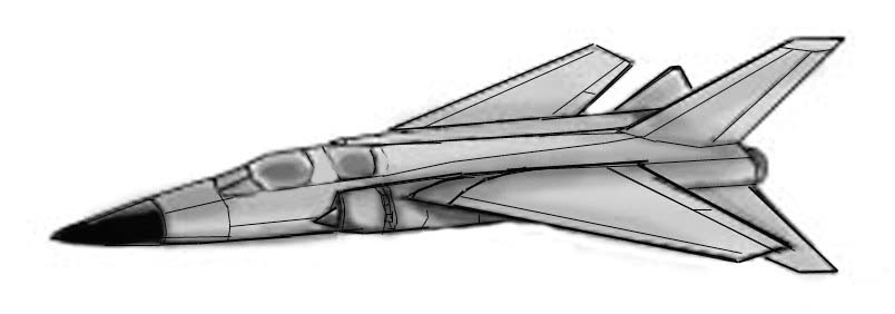 Early design of the AFVG (artist's concept).